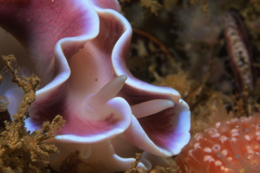 photograph of the Rhinophores of the Frilled nudibranch, Leminda millecra taken with a Nikonos V camera